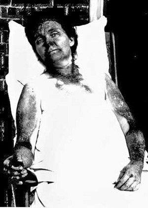 Woman suffering from pellagra.